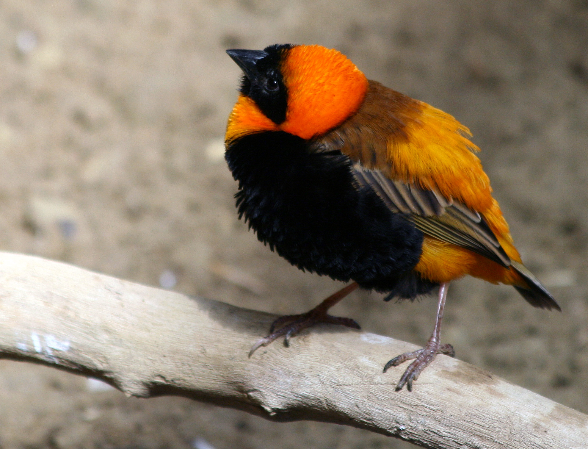 Southern Red Bishop at the Tiergarten Schönbrunn in Vienna